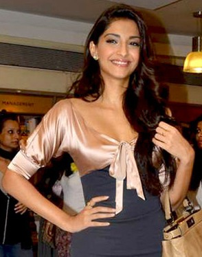 Sonam Kapoor at Femina Magzine launch